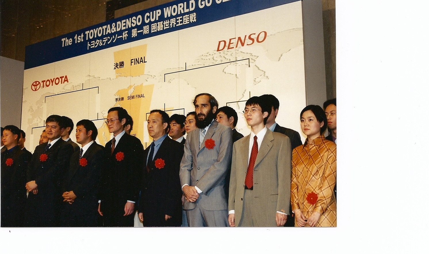 1st Toyota Cup